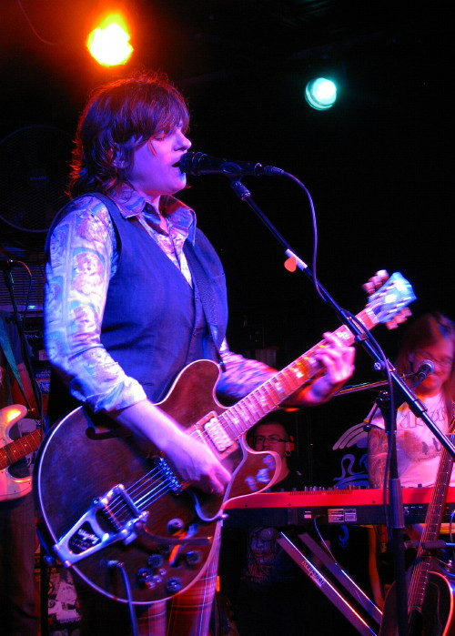 Amy Ray performing at The Saint in Asbury Park, NJ, USA, during the tour promoting her 2012 solo album, Lung of Love.